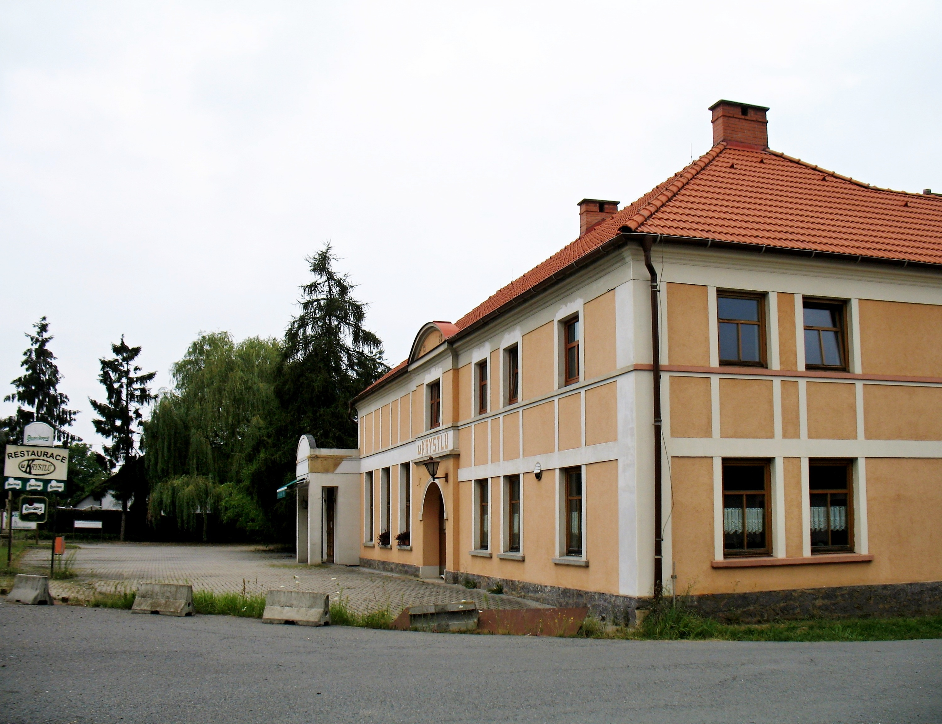 Restaurant U Krystlů, Nevřeň, Plzeň-sever District, Czech Republic